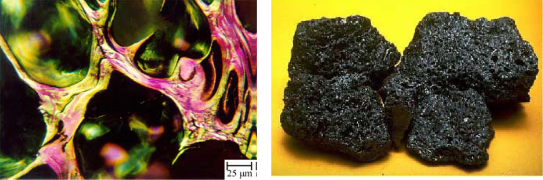 Sponge coke and its microstructure